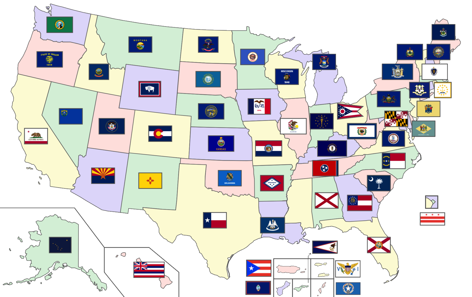 A map of the United States showing the flags of the 50 U.S. states, the District of Columbia, and the 5 inhabited U.S. territories (Total number of flags: 56)